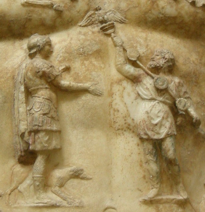 Torso of the Augustus of Prima Porta statue, now in the Bracchio Nuovo of the Vatican Museums, Rome. (cropped from File:Augusto di Prima Porta, inv. 2290, 03.jpg)